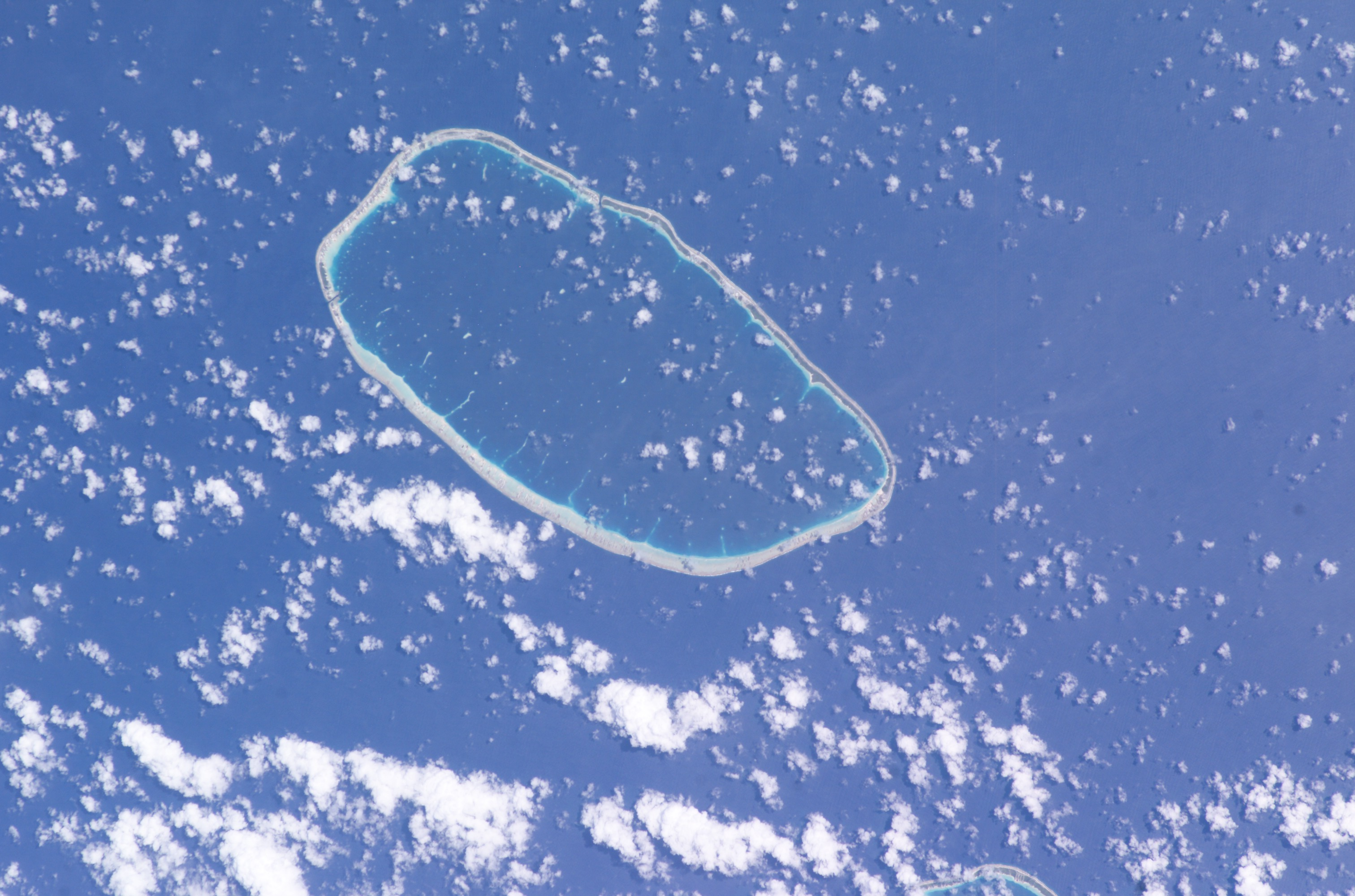 An image from the International Space Station of the Katiu Atoll in the Tuamotu Archipelago, French Polynesia.